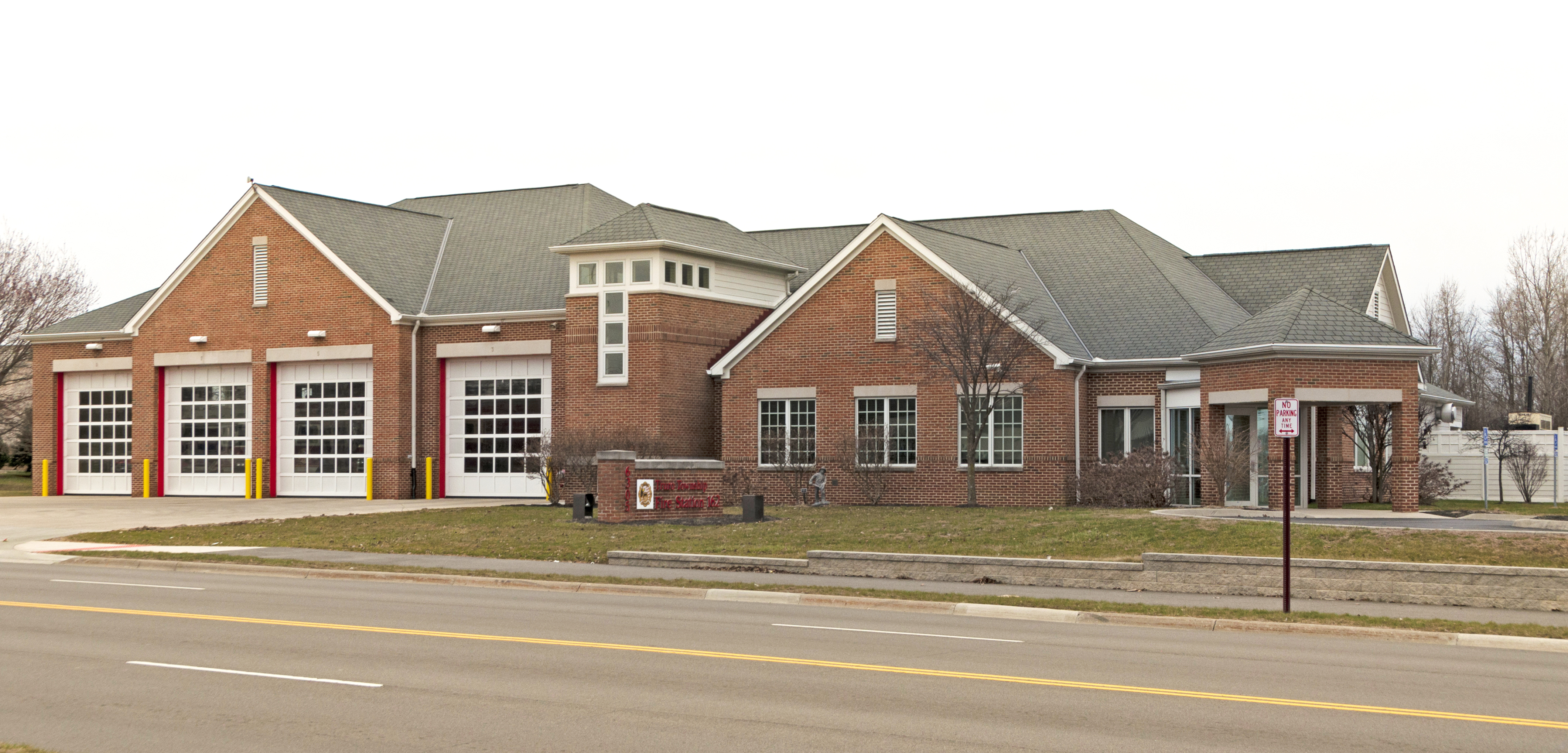 Truro Township Fire Department Headquarters (northwest direction).